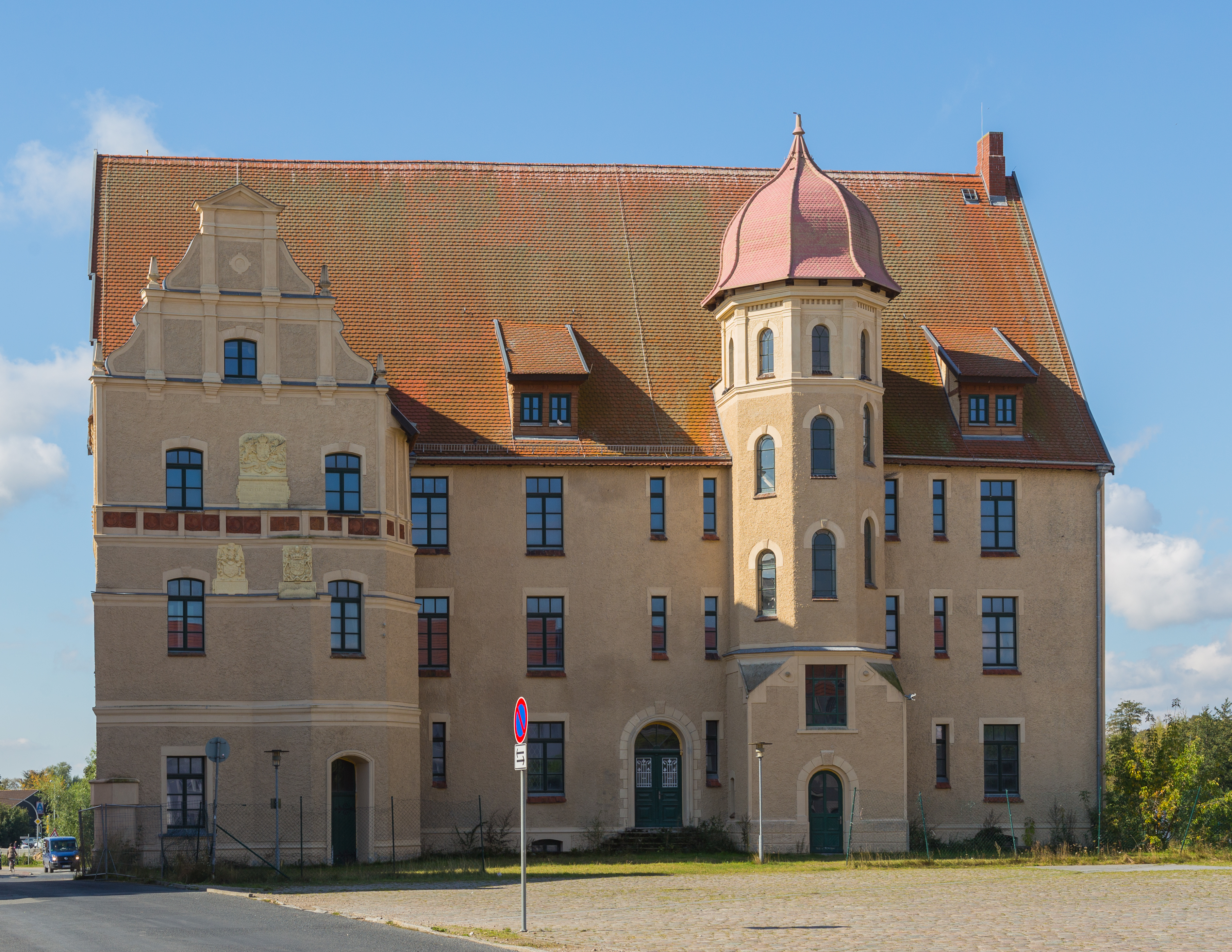 Bützow Castle (Schloss Bützow) in Bützow, Landkreis Rostock, Mecklenburg-Vorpommern, Germany.